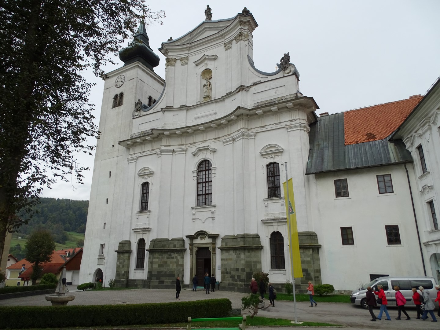 Church of St. Mohor and Fortunat, Gornji Grad - facade of the church